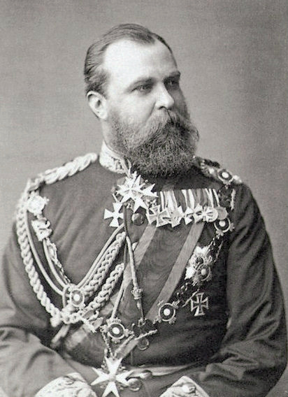 Photo by unknown of Grand Duke Ludwig IV of Hesse and by Rhine. Hesse, Darmstadt, German Empire, 1878. Photo comes from User:Mrlopez2681's connection